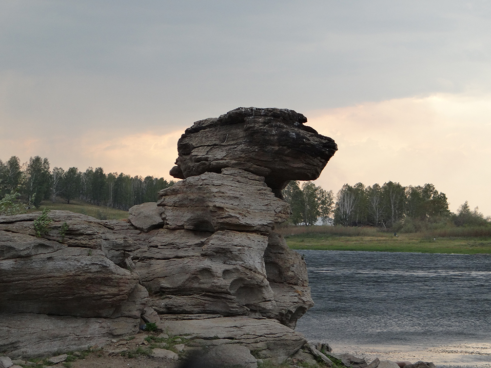 Argayashsky District, Chelyabinsk Oblast, Russia